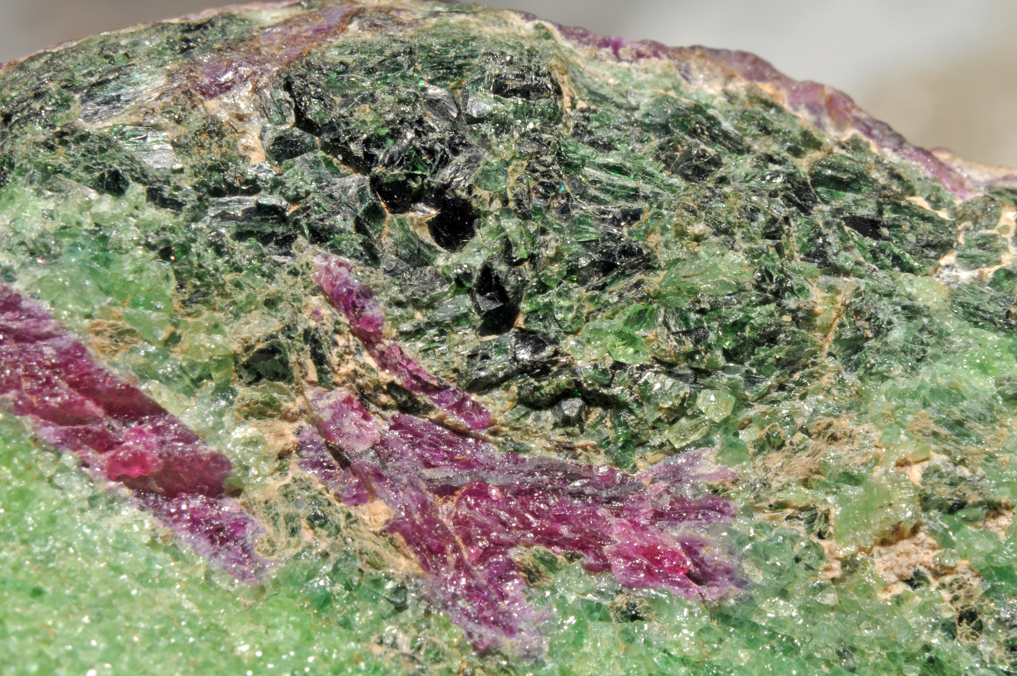 crystals of zoisite var. anyolite, crystals of pargasite, crystals of corundum var. ruby : Mundarara Mine (Mdarara), Arusha Region, Tanzania